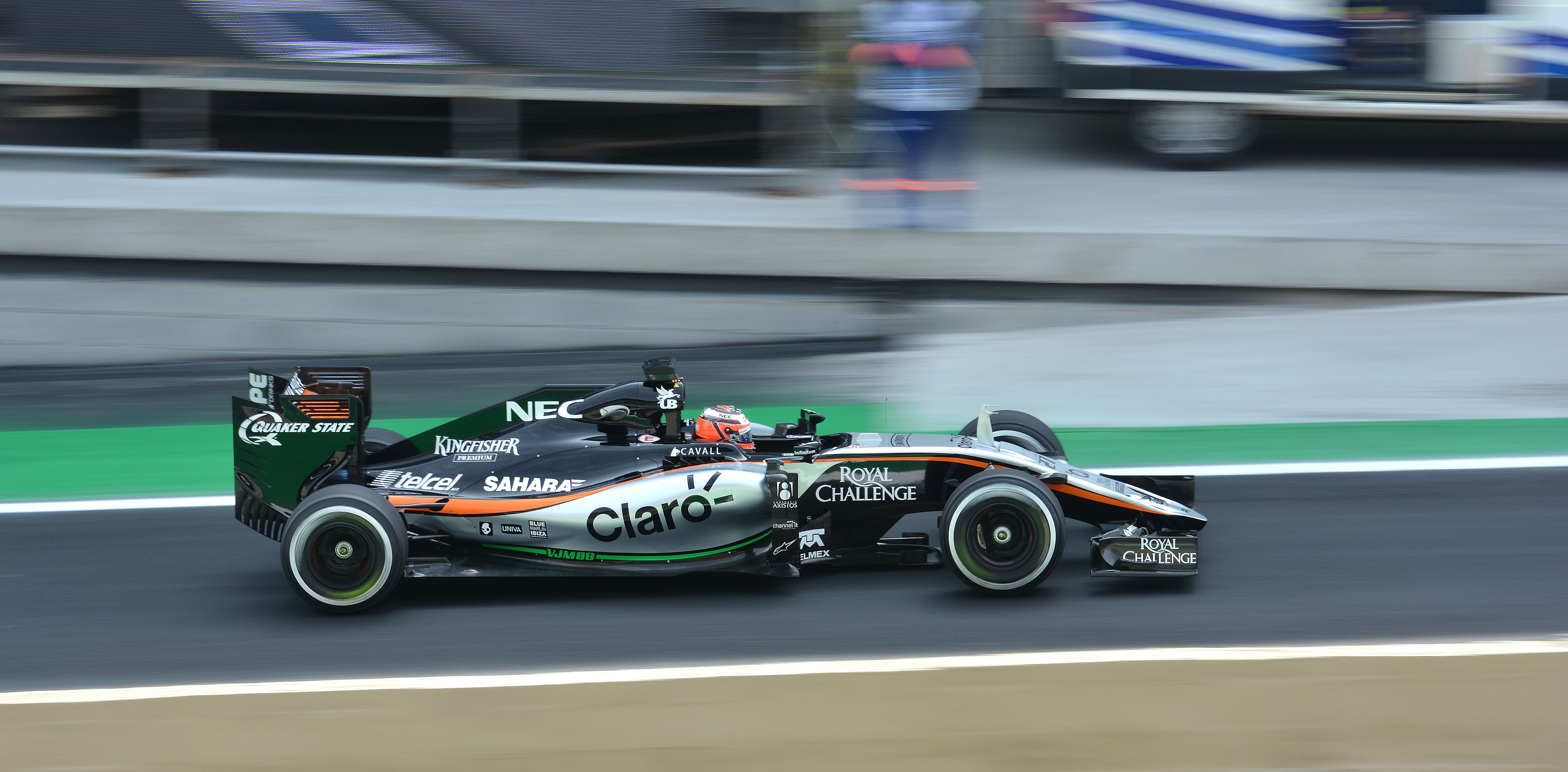 Nico Hülkenberg at the 2015 Brazilian Grand Prix